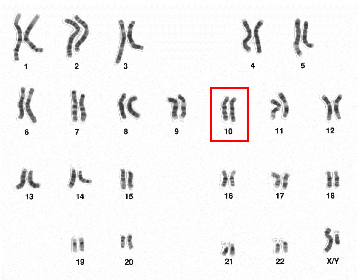 Human male Karyotype after G-banding. Chromosome 10 highlighted.